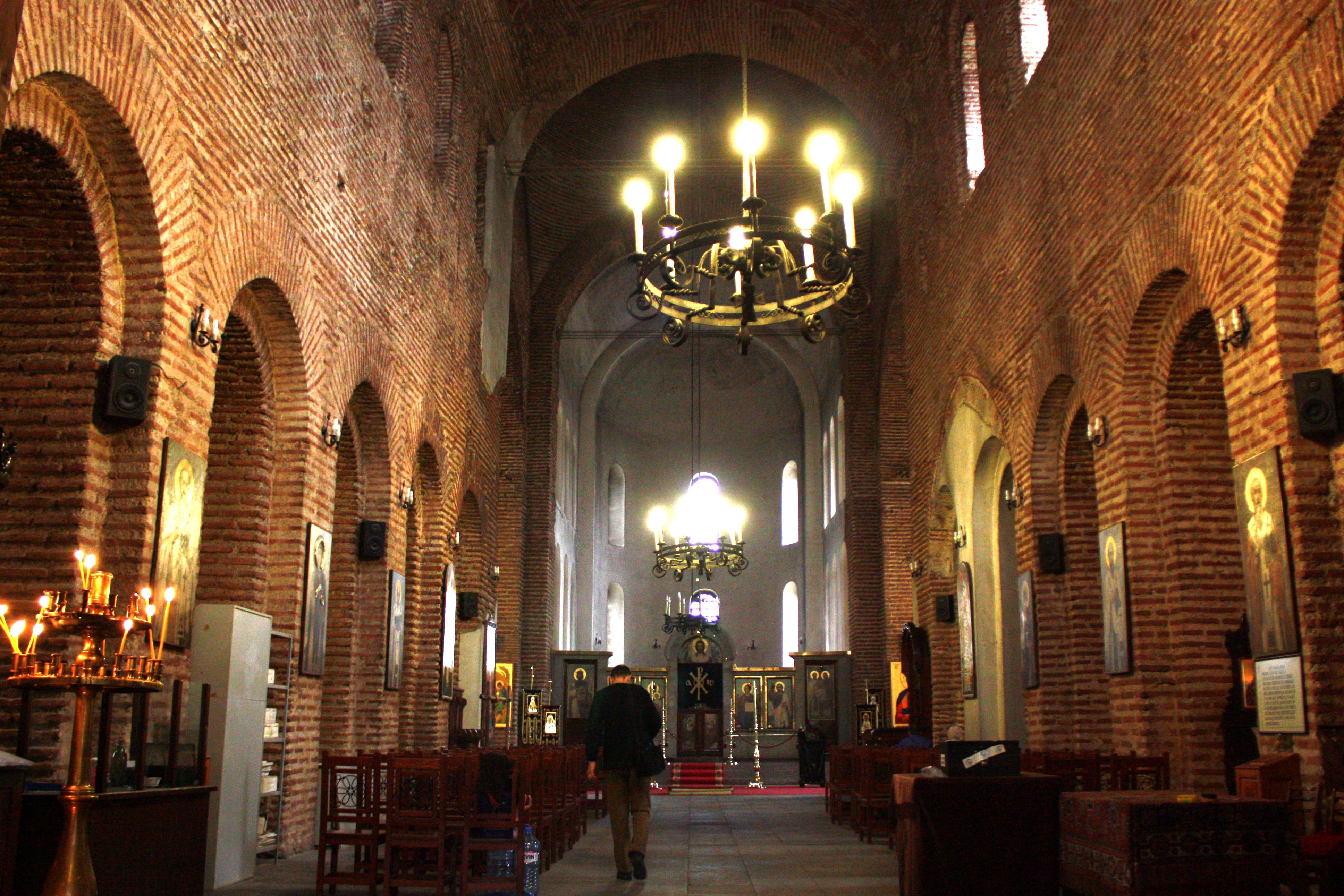 Sveta Sofia Church in Sofia, Bulgaria